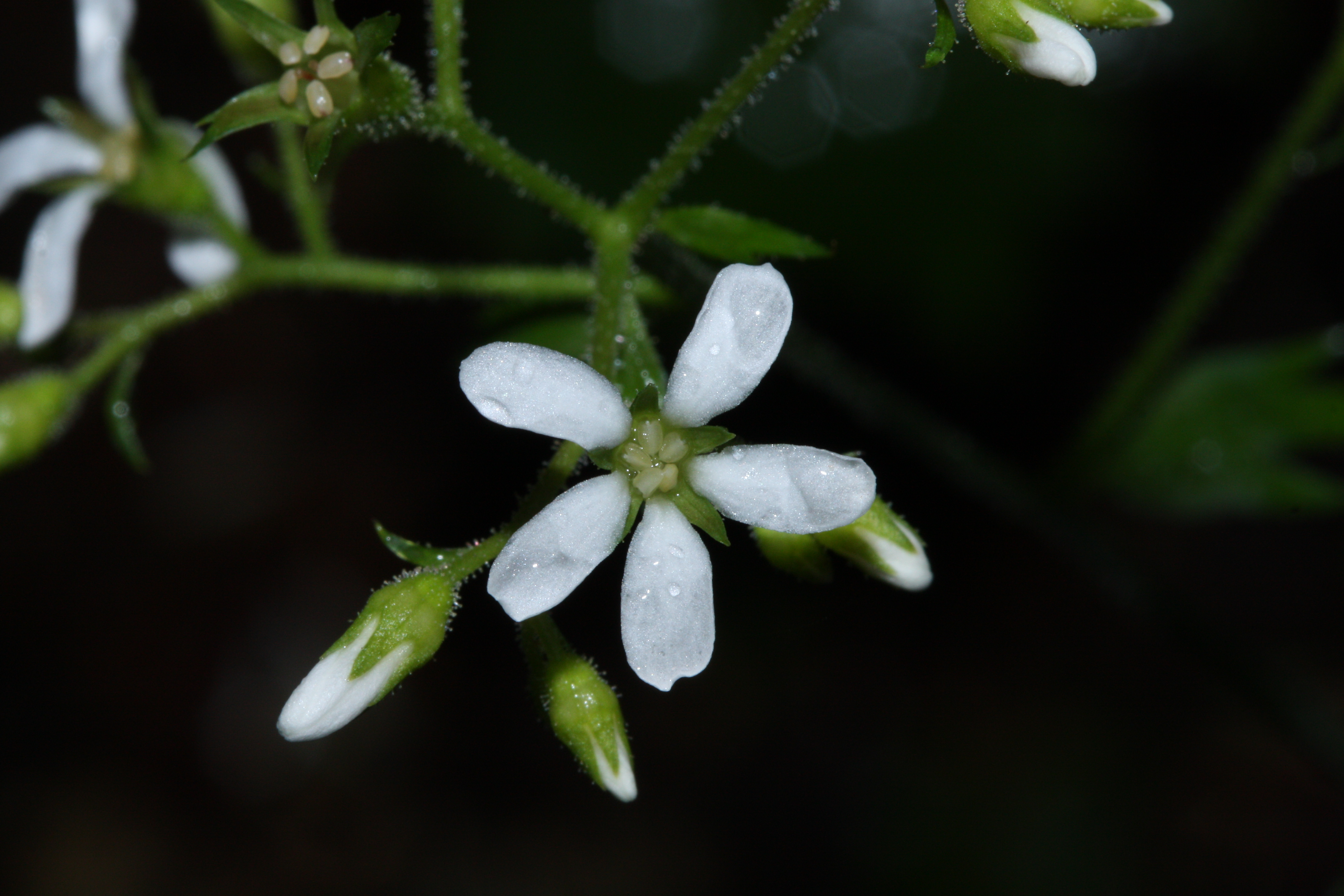 Coastal Brookfoam